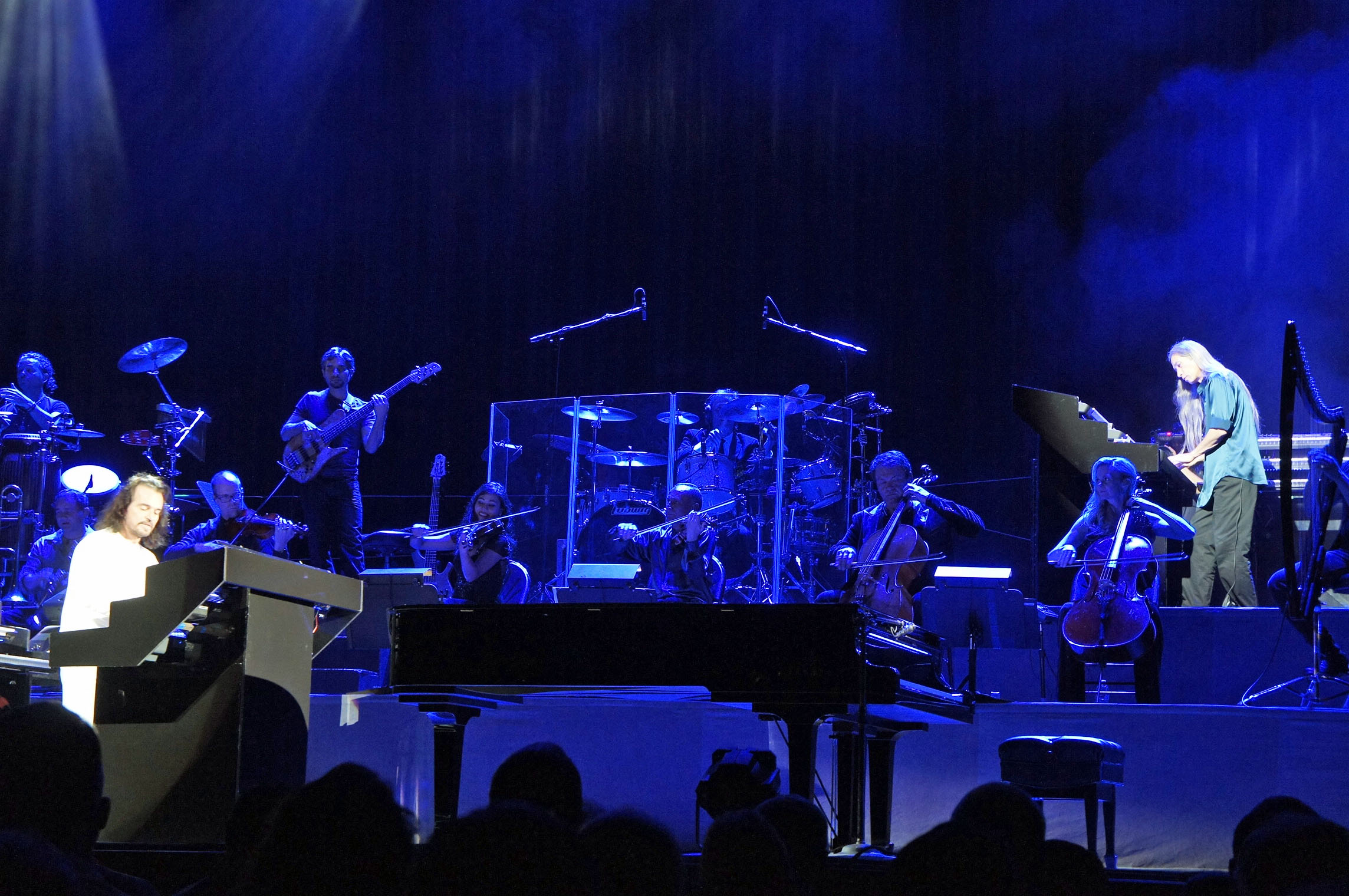 Ming Freeman (highlighted at right) during a concert with Yanni (highlighted at left). Other individuals in shadows: Yoel del Sol (back row, by drums), Jason Carder (left of Yanni), Gabriel Vivas (back row, with bass guitar), Benedikt Brydern and Mary Simpson and Samvel Yervinyan (with violins), Charlie Adams (back row, by drums), Alexander Zhiroff and Sarah O'Brien (with cellos).